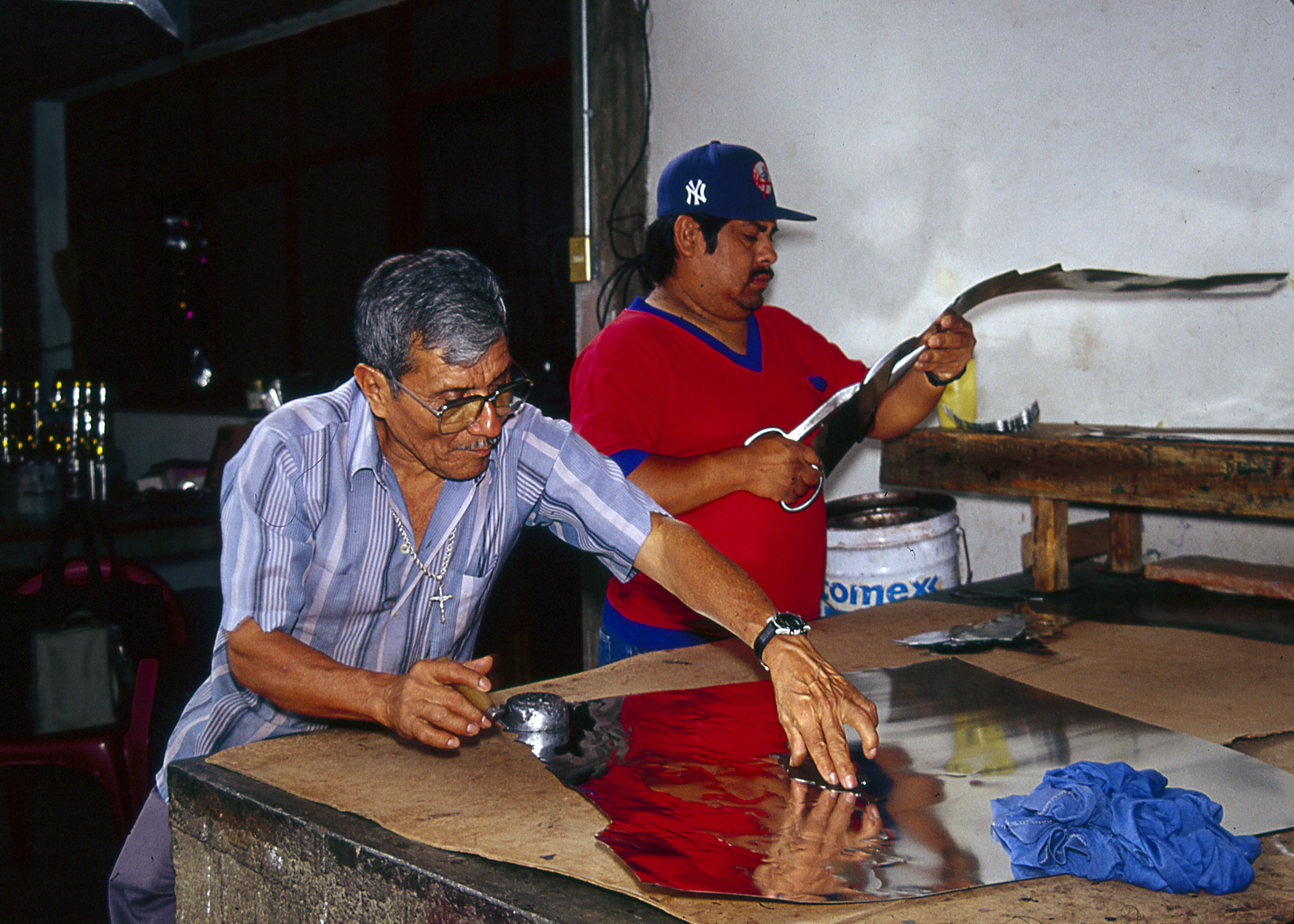 Alfonso Santiago Leyva and son Tomas at workshop in Oaxaca